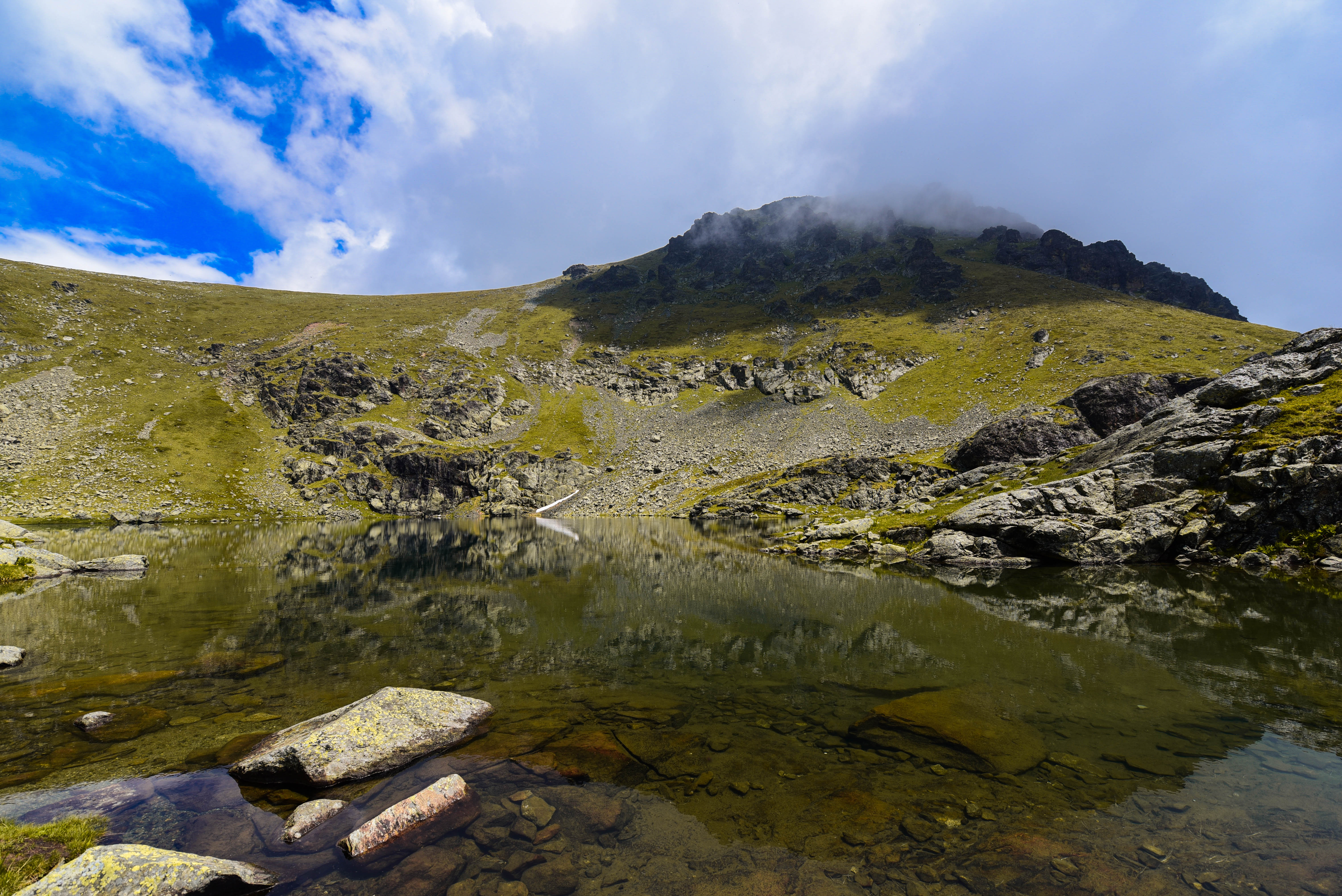 Gjeravica mountain peak as seen from the lake.